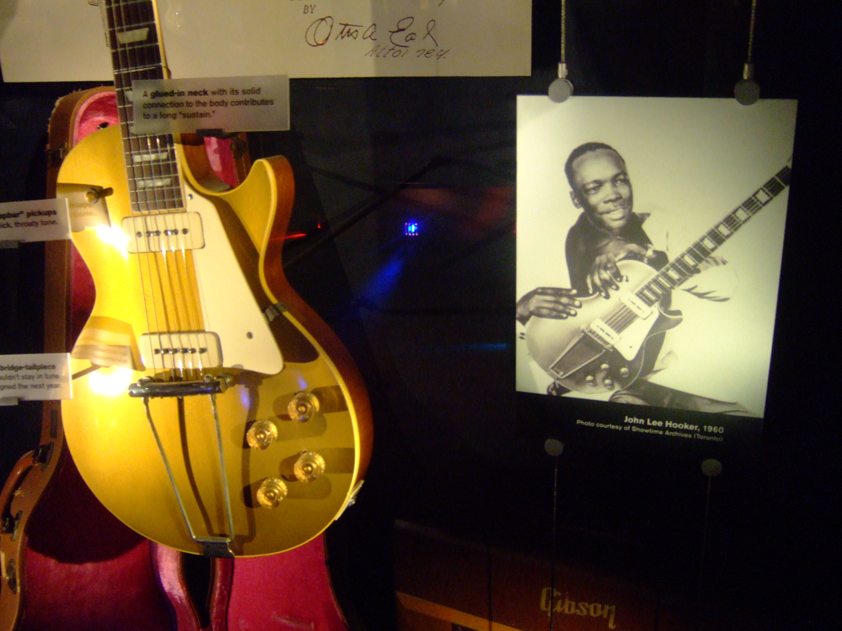 Experience Music Project/Science Fiction Hall of Fame, Seattle.